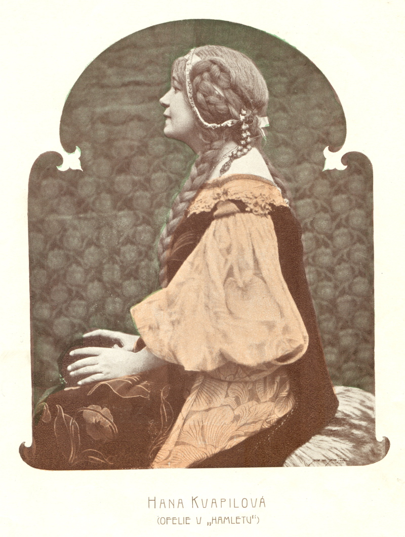 Actress Hana Kvapilová as Ophelia in Shakespeare's Hamlet